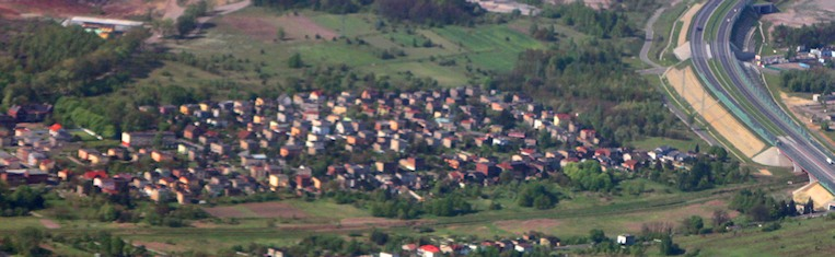 View from the northeast towards Brzozowice-Kamień district of Piekary Śląskie, Poland.